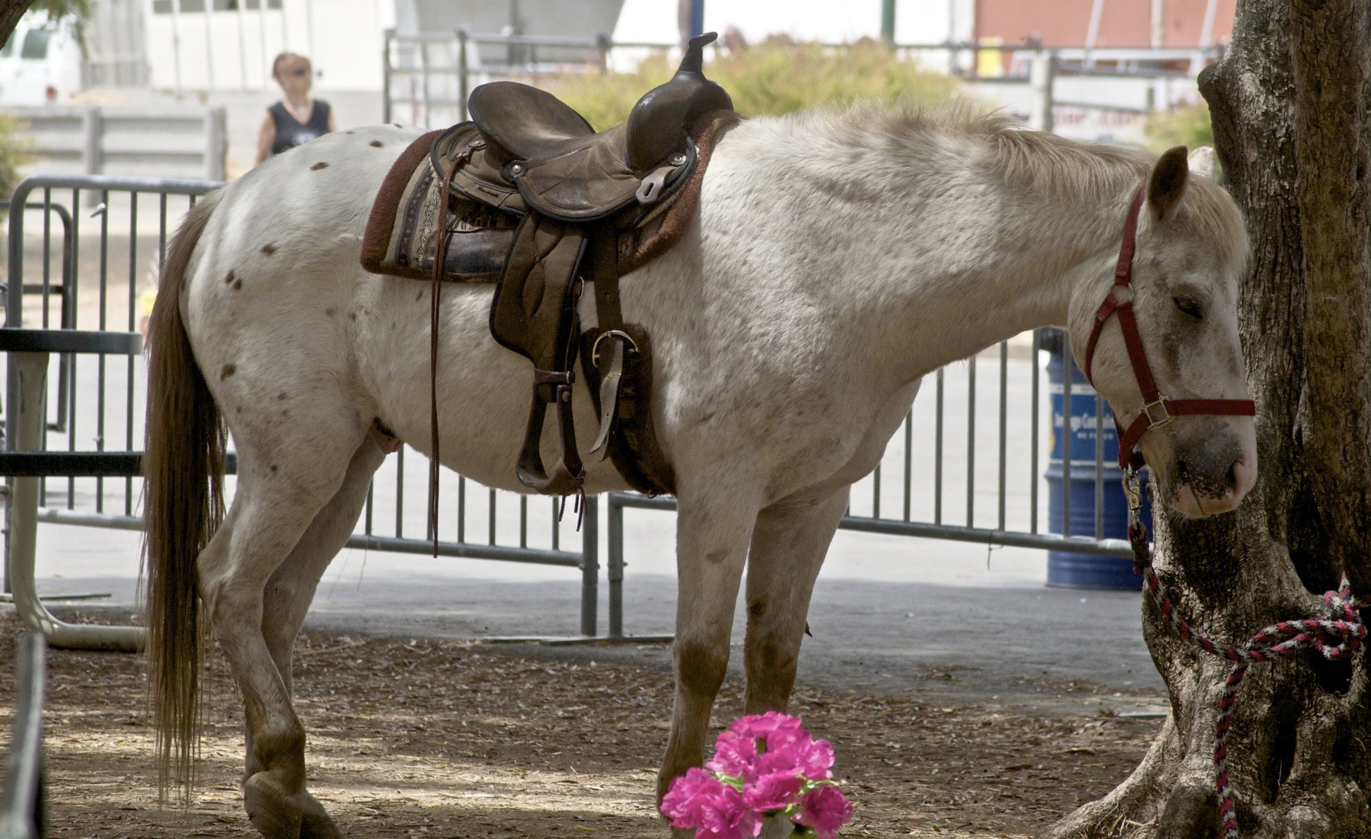 Pony of the Americas